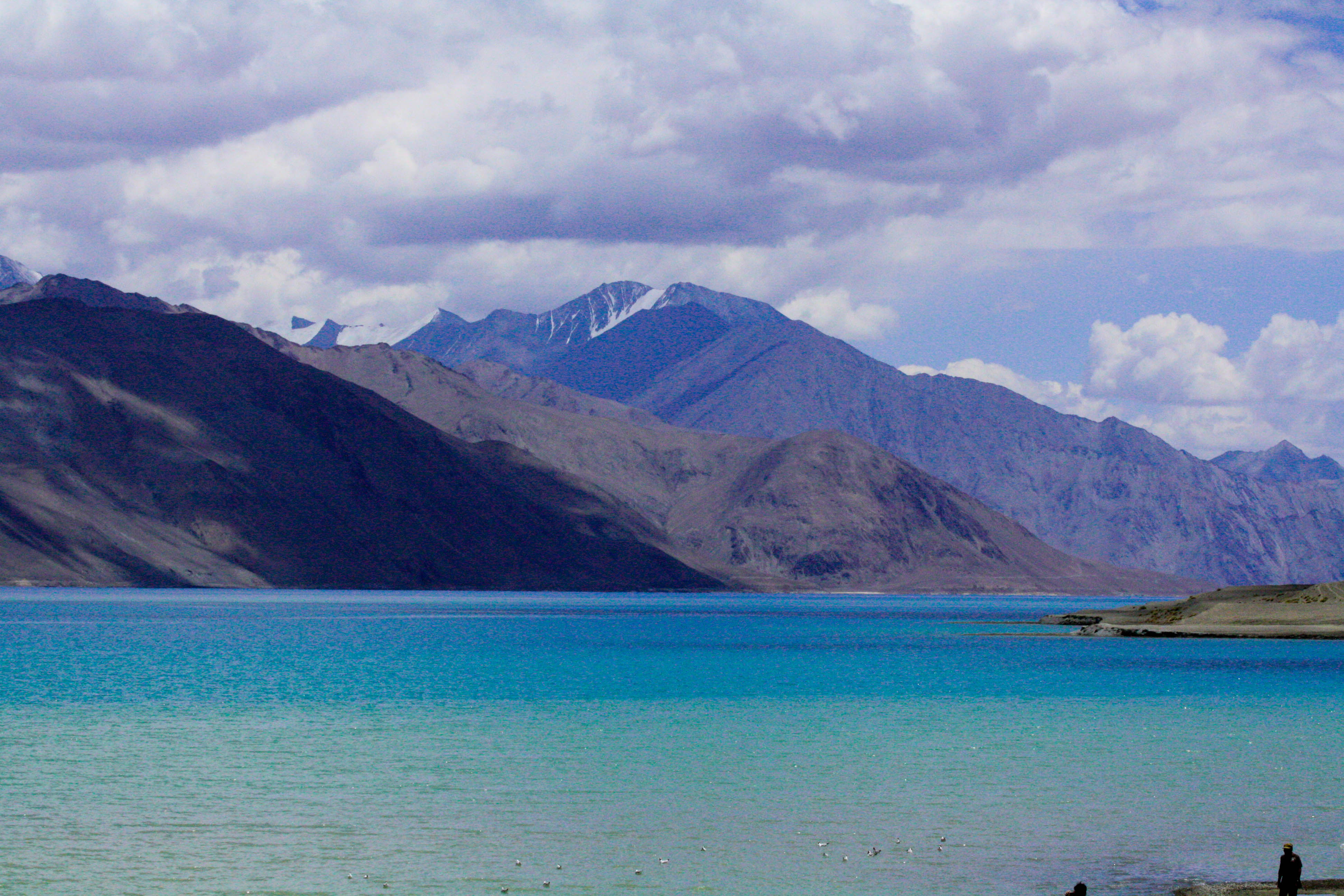 A lake in the Leh-Ladakh, Himalayan region of Jammu & Kashmir, India (ca. 2011 image)